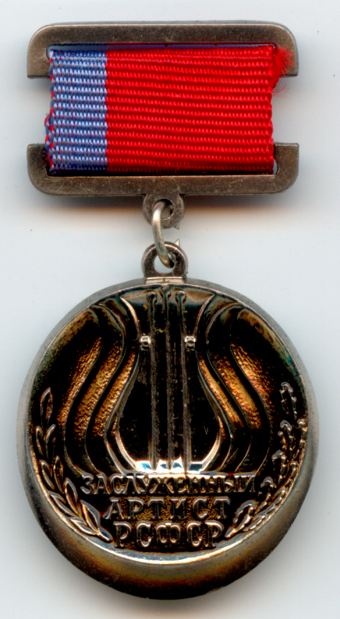 Honoured Artist of RSFSR medal